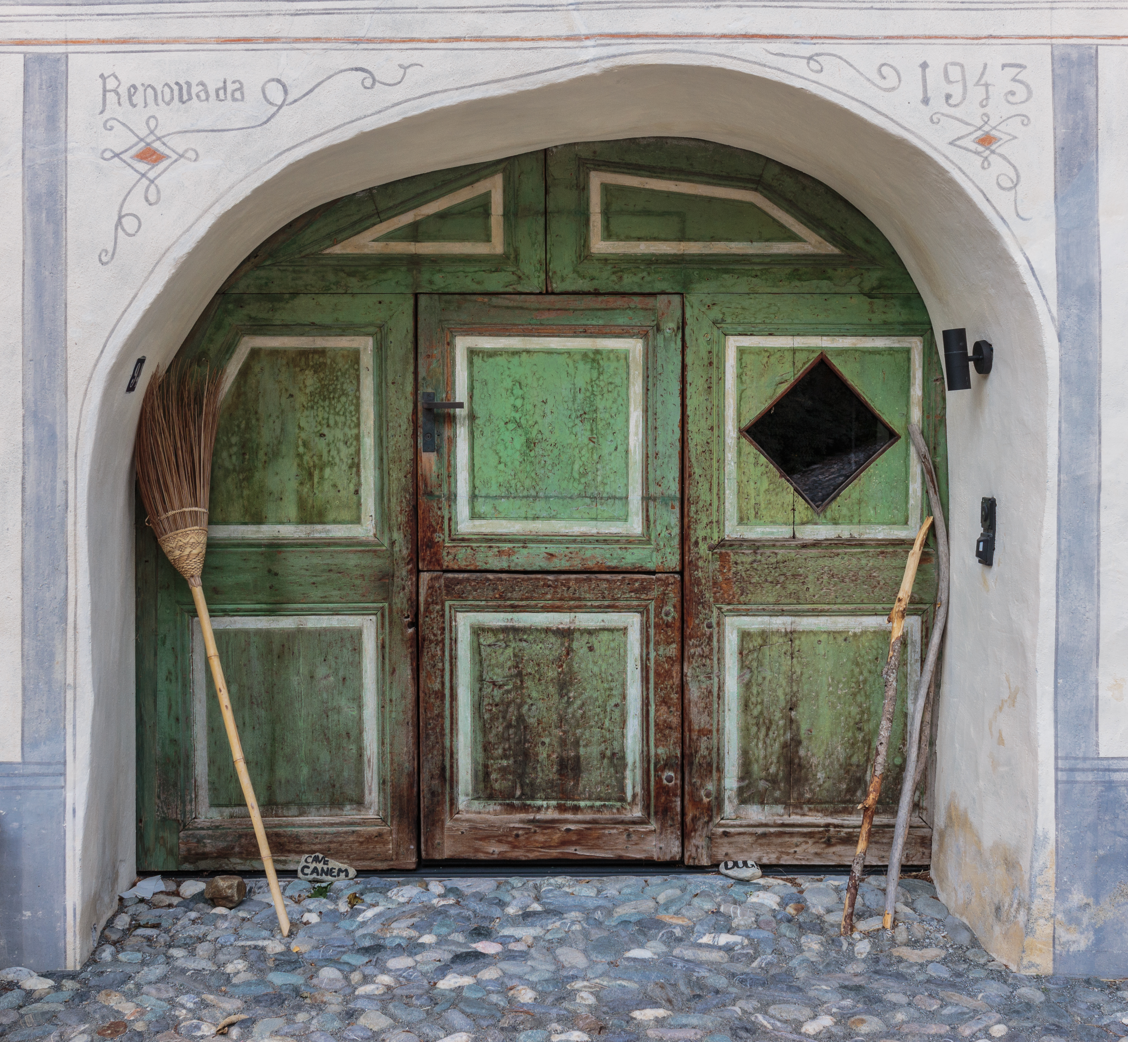 Mountain tour of Guarda, Switzerland via Ardez and Ftan to Scuol Wooden door in a residential house.